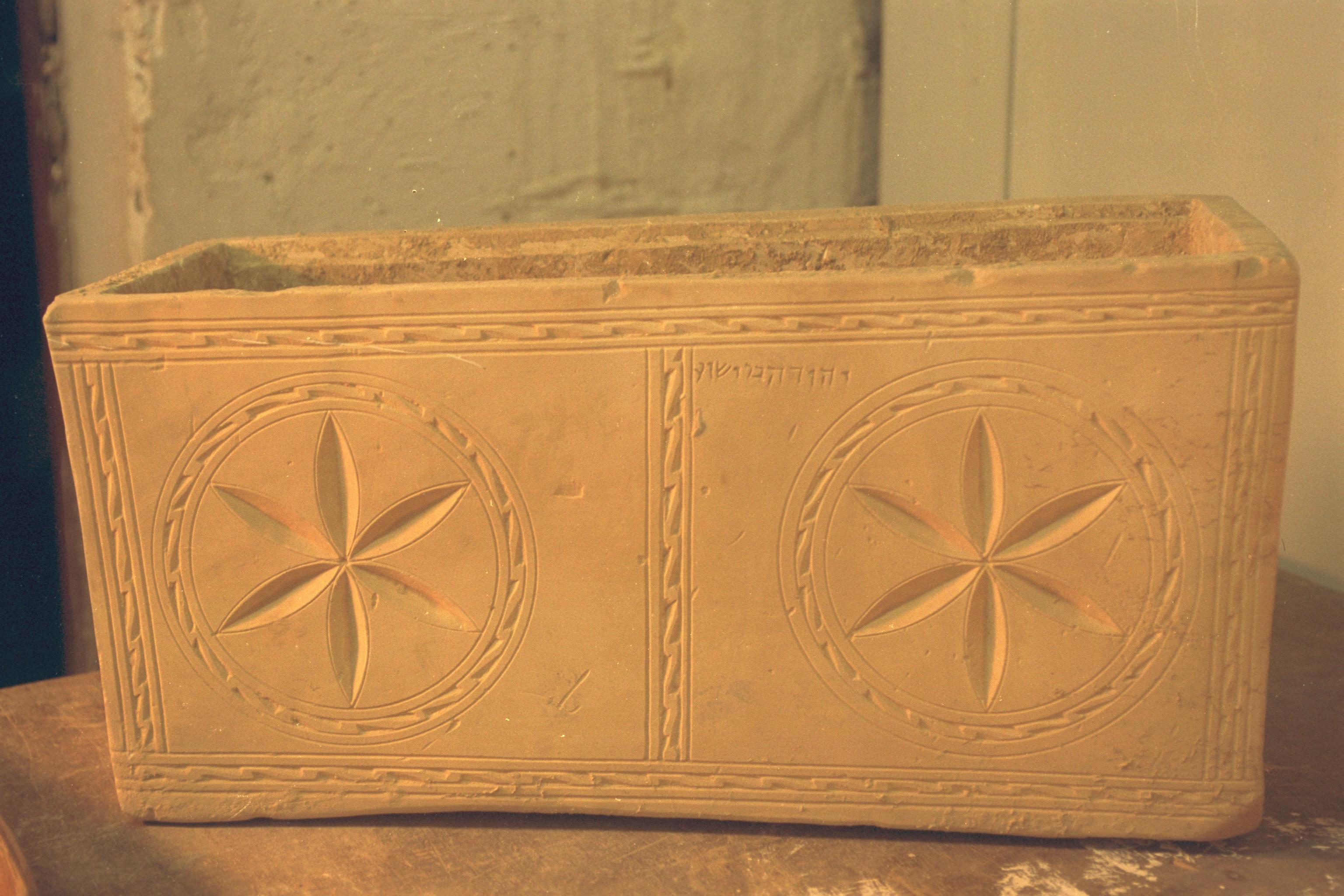 Detail from a sarcophagus attributed to Jesus and his family, which was uncovered during archeological excavations in Jerusalem and stored in antiquities authority warehouses. צילום תקריב של סרקופג המיוחס לישו הנוצרי ומשפחתו הנמצא במחסני רשות העתיקות בירושלים. Photo: Moshe Milner (1946–) Alternative names Miylner, Moše; Milner, Mosheh; Moshé Milner; Milner, M.; Mîlner, Moše; Miylner, MošehDescriptionIsraeli photographerצלם ישראליDate of birth 1946 Location of birth Germany Authority control : Q28750411 VIAF: 100999744 ISNI: 0000 0001 0804 0507 LCCN: n82072104 GND: 115699732 BNF: 15548788n WorldCat creator QS:P170,Q28750411 , 04/02/1996